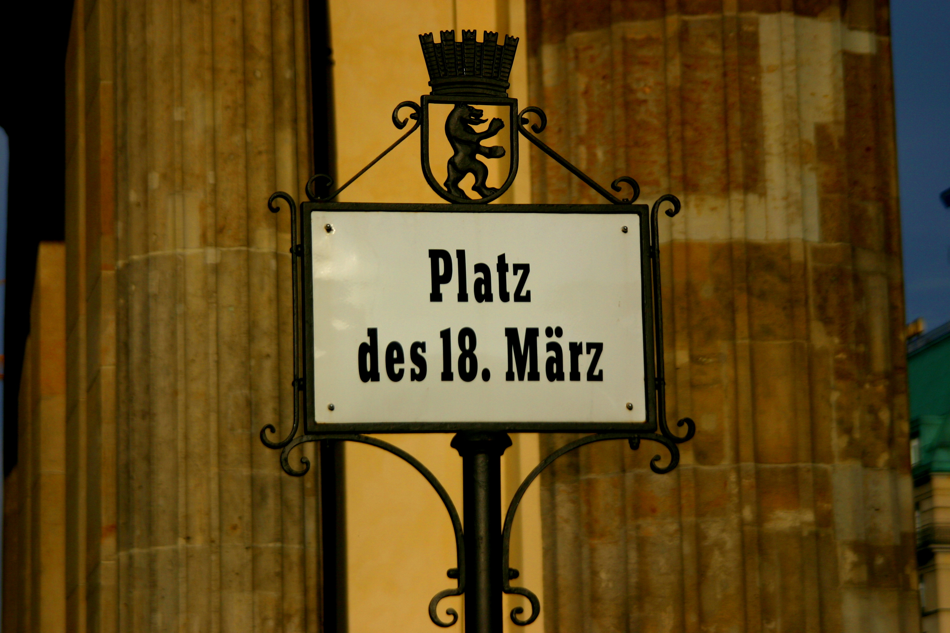 Sign of the Platz des 18. März in Berlin (columns of the Brandenburg Gate in the background)